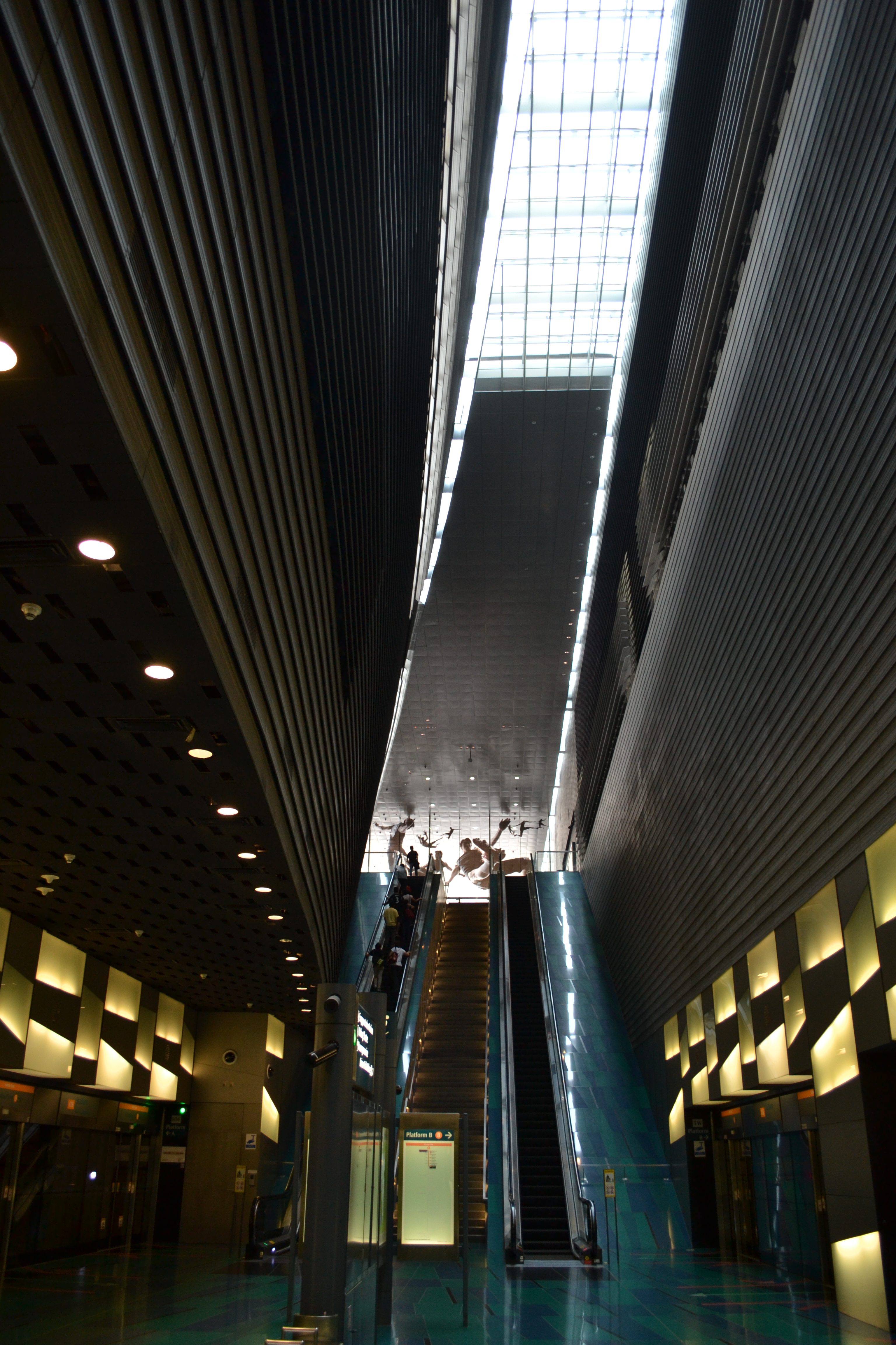 Station MRT Platform